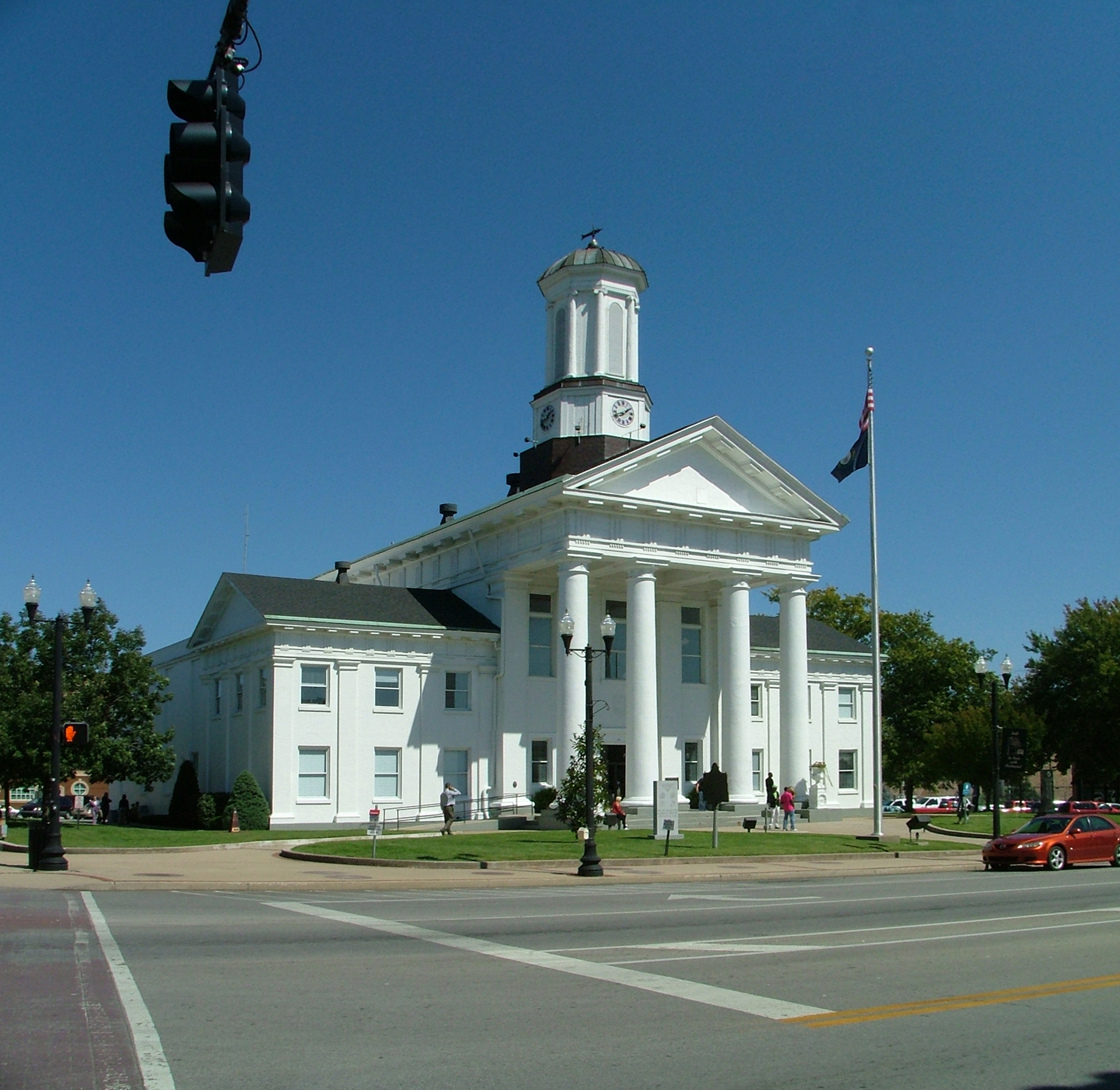 Perspective of the Old Madison County Courthouse, Richmond, Kentucky (USA).